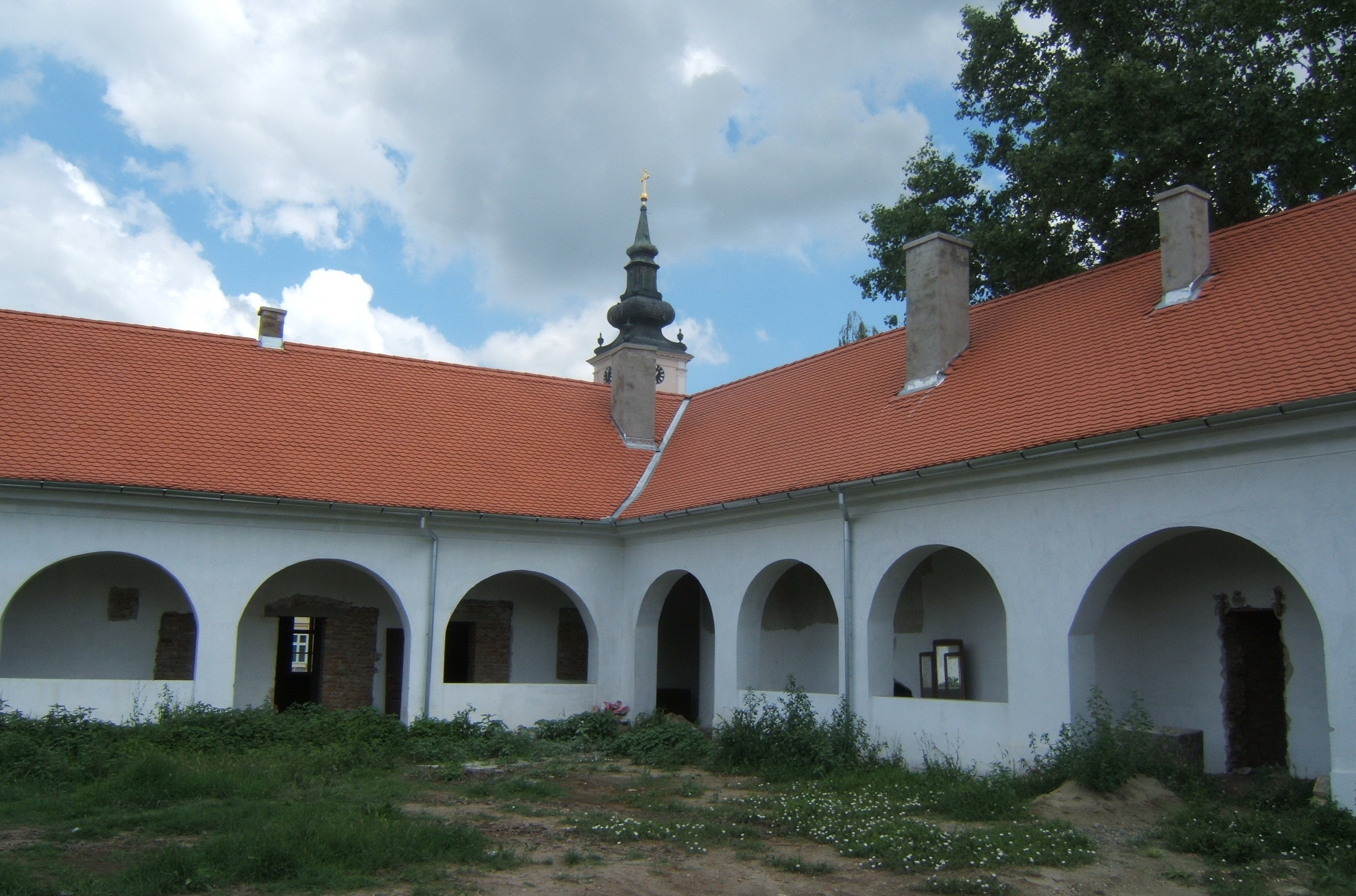 Old municipal building in Vranjevo - yard facade